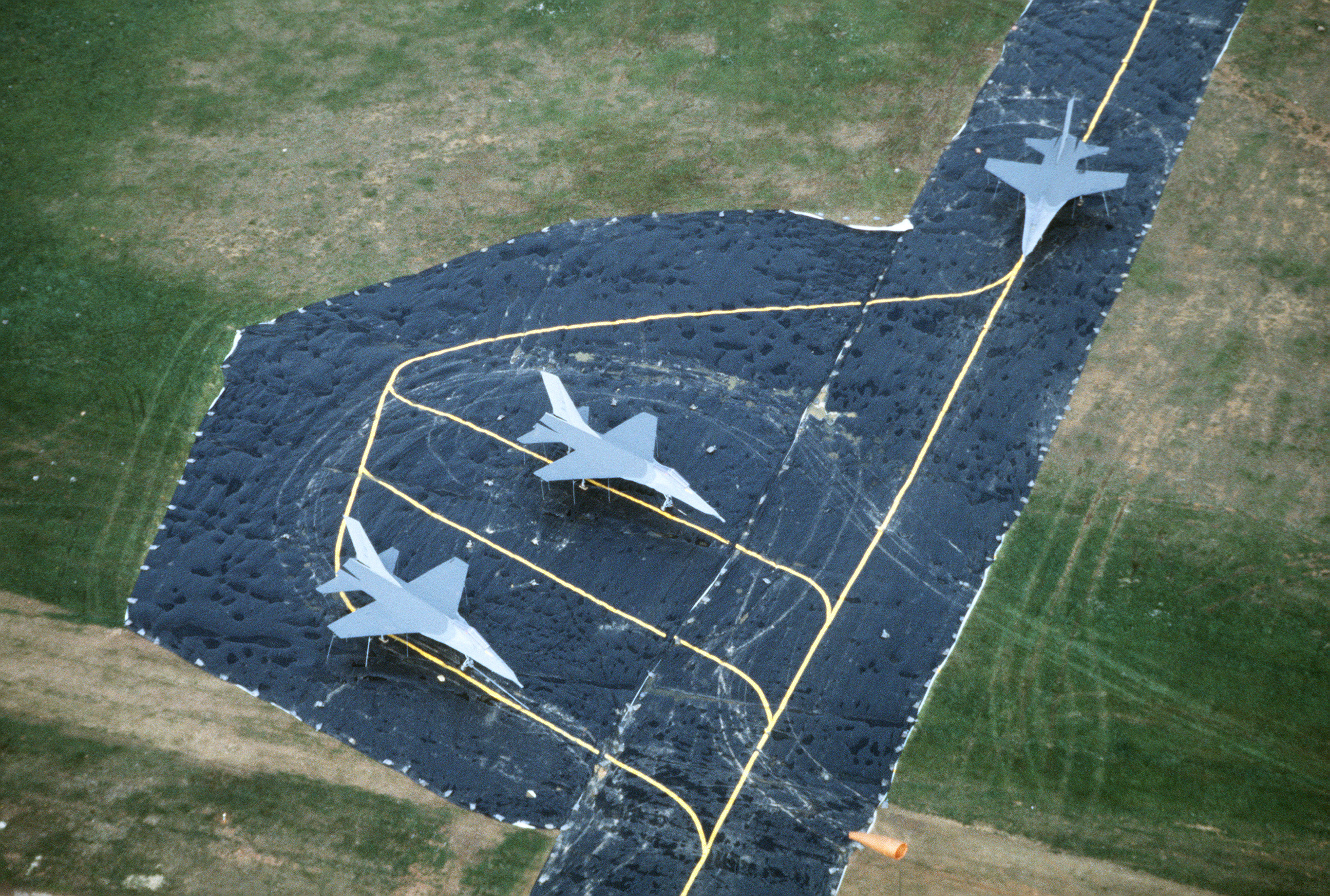 Three U.S. Air Force F-16 Fighting Falcon aircraft mockups parked on a fake runway at Spangdahlem Air Base, Germany, during exercise "Salty Demo '85" on 29 April 1985. "Salty Demo '85" was an air base survivability exercise evaluating passive and active defenses, aircraft operation and generation, and base recovery systems.